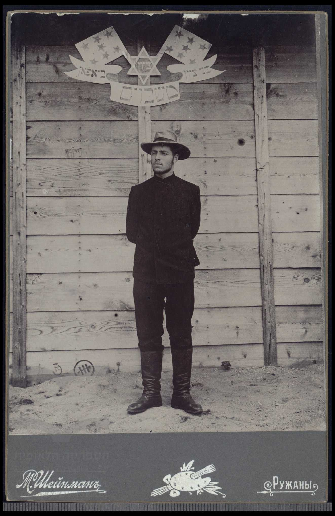 Joseph Trumpeldor in Japanese captivity in Belarus